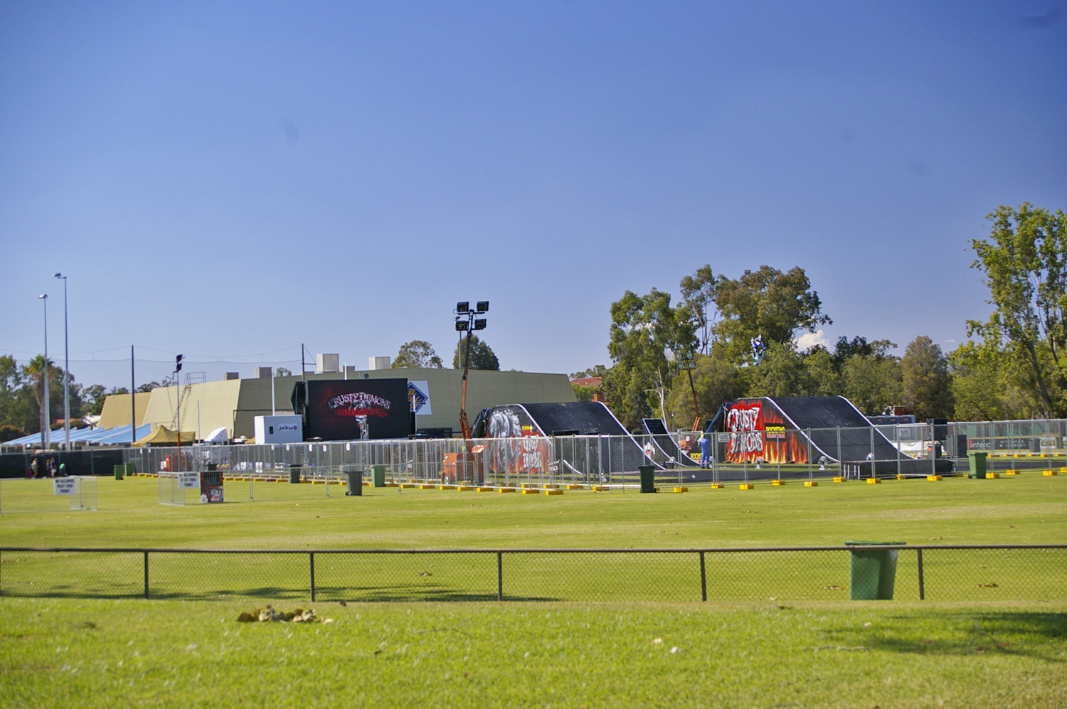 Crusty Demons Regional Australia Tour. Wagga Wagga, New South Wales